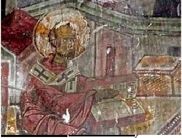 Fresco